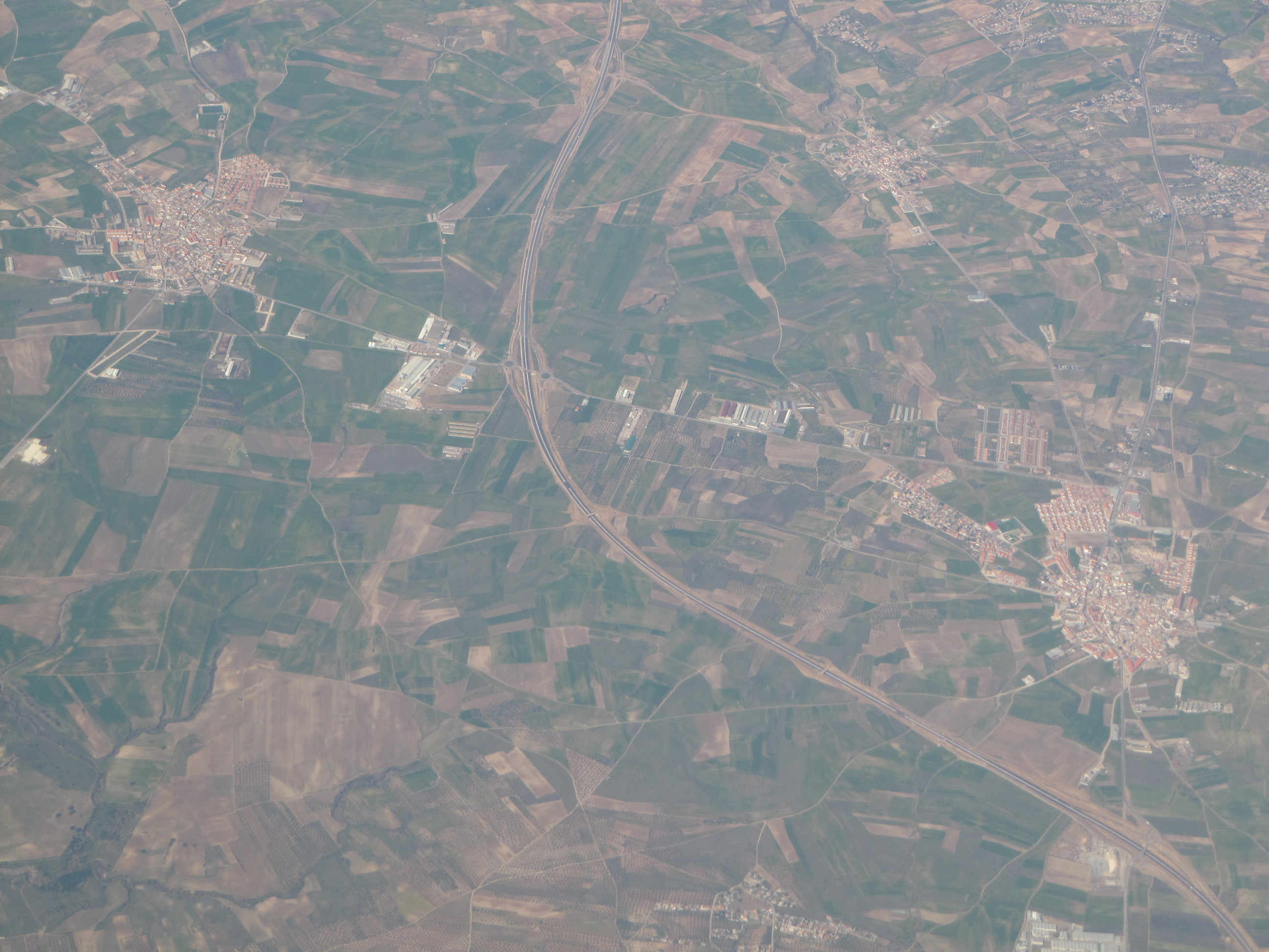 AP-41 near Illescas